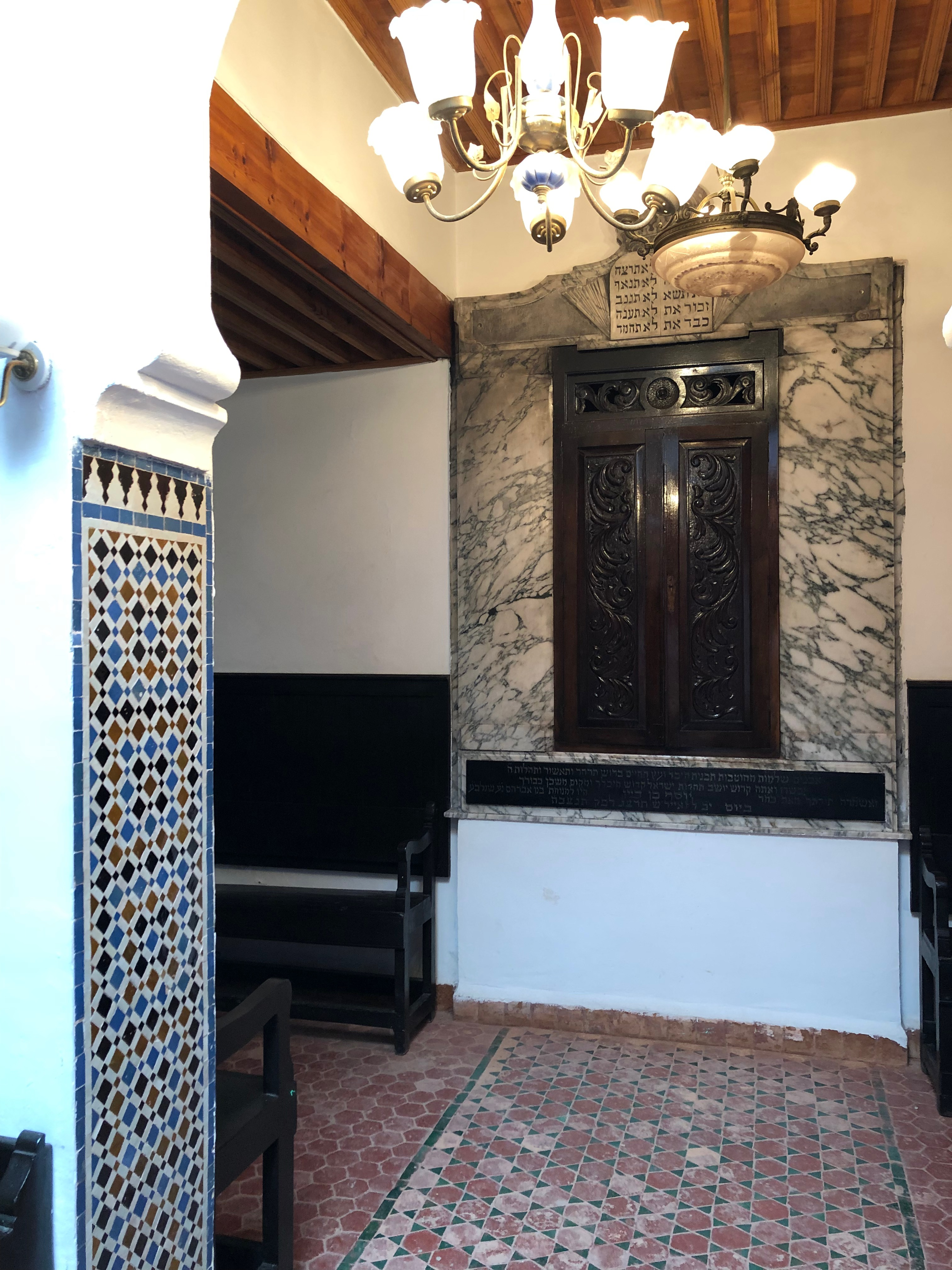 Synagogue Walid sanae:560024